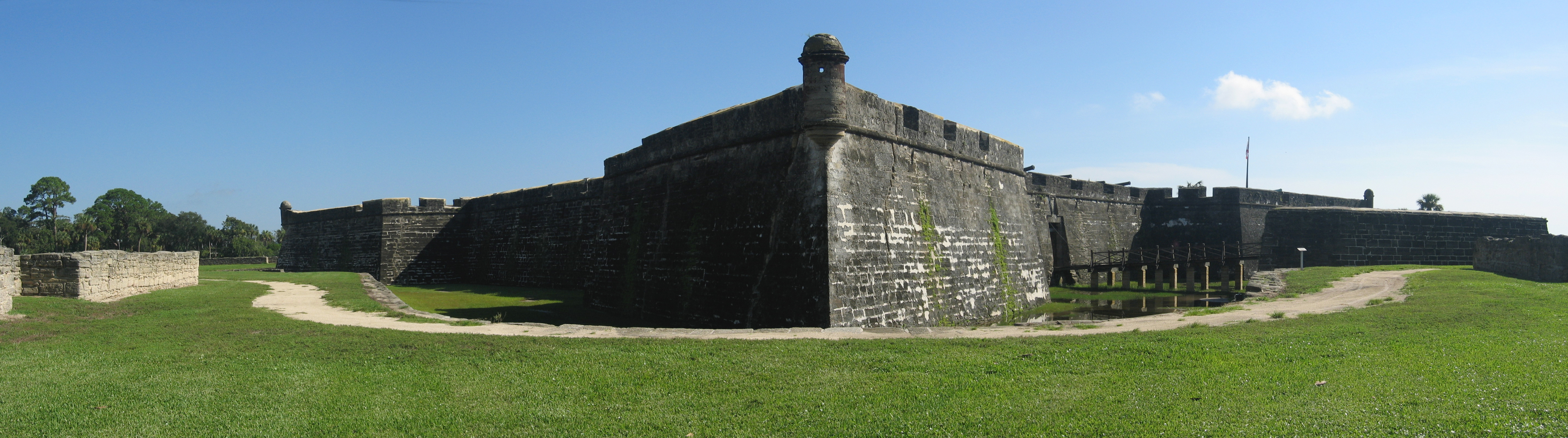 Panorama of the Castillo de San Marcos fort in St. Augustine, Florida, USA.